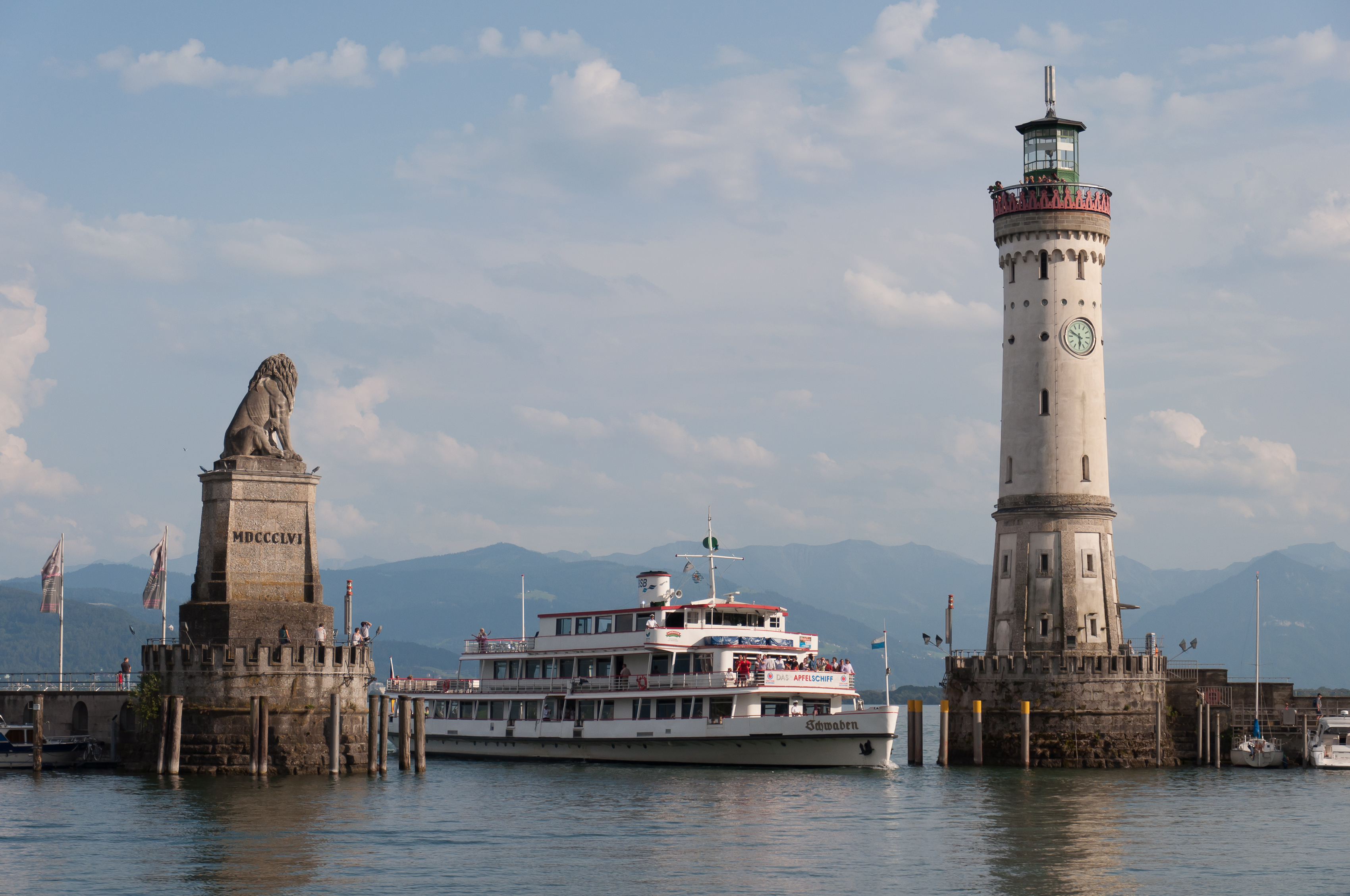 Harbor entrance with Bavarian Lion, the New Lighthouse and the Schwaben in Lindau (Lake Constance, Germany)